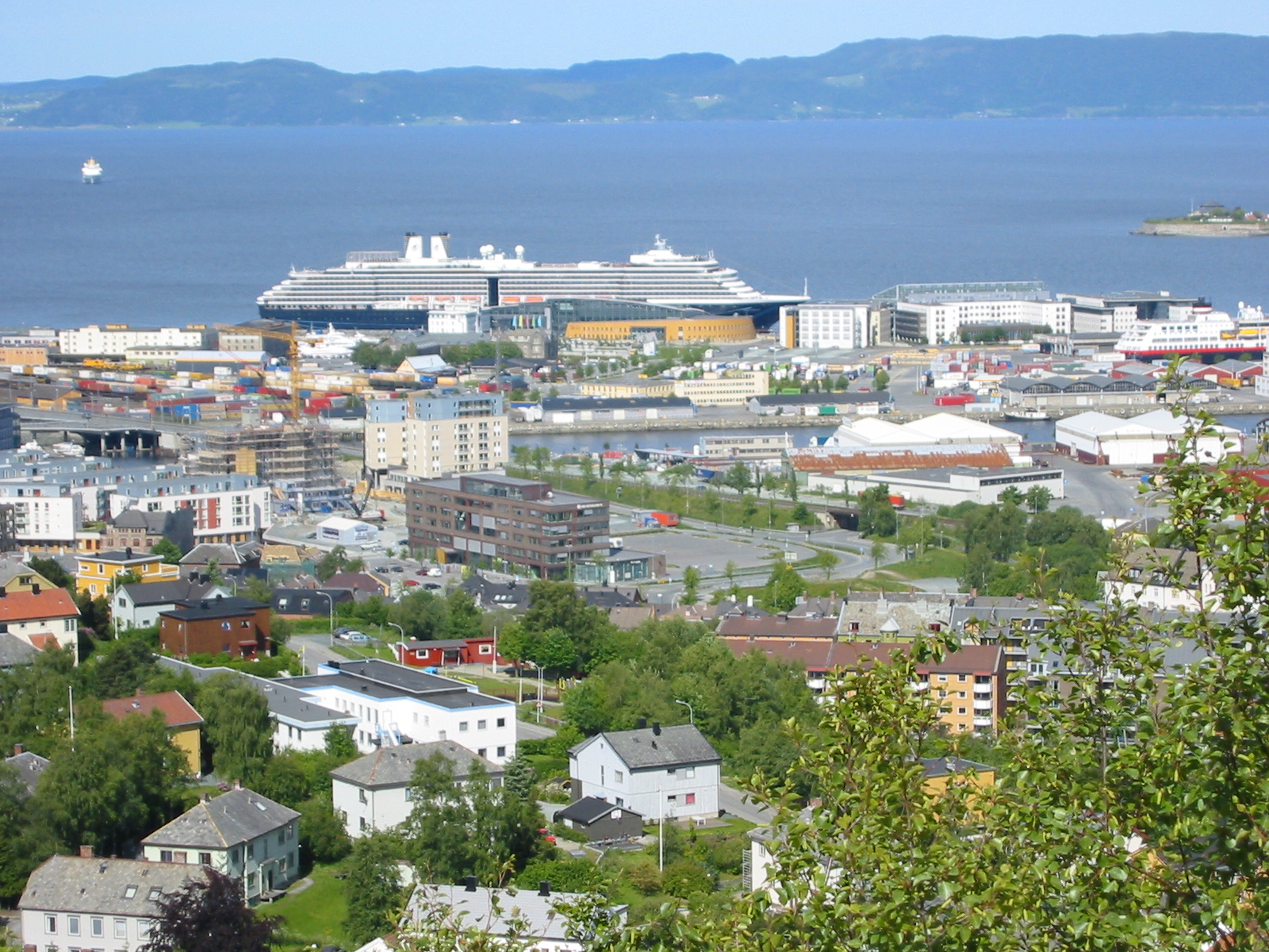 Cruise ship in Trondheim The body of water in front of the cruise ship is Nidelva. The channel that separates the railway station from the city starts under the bridge at the extreme left-hand side of the picture.